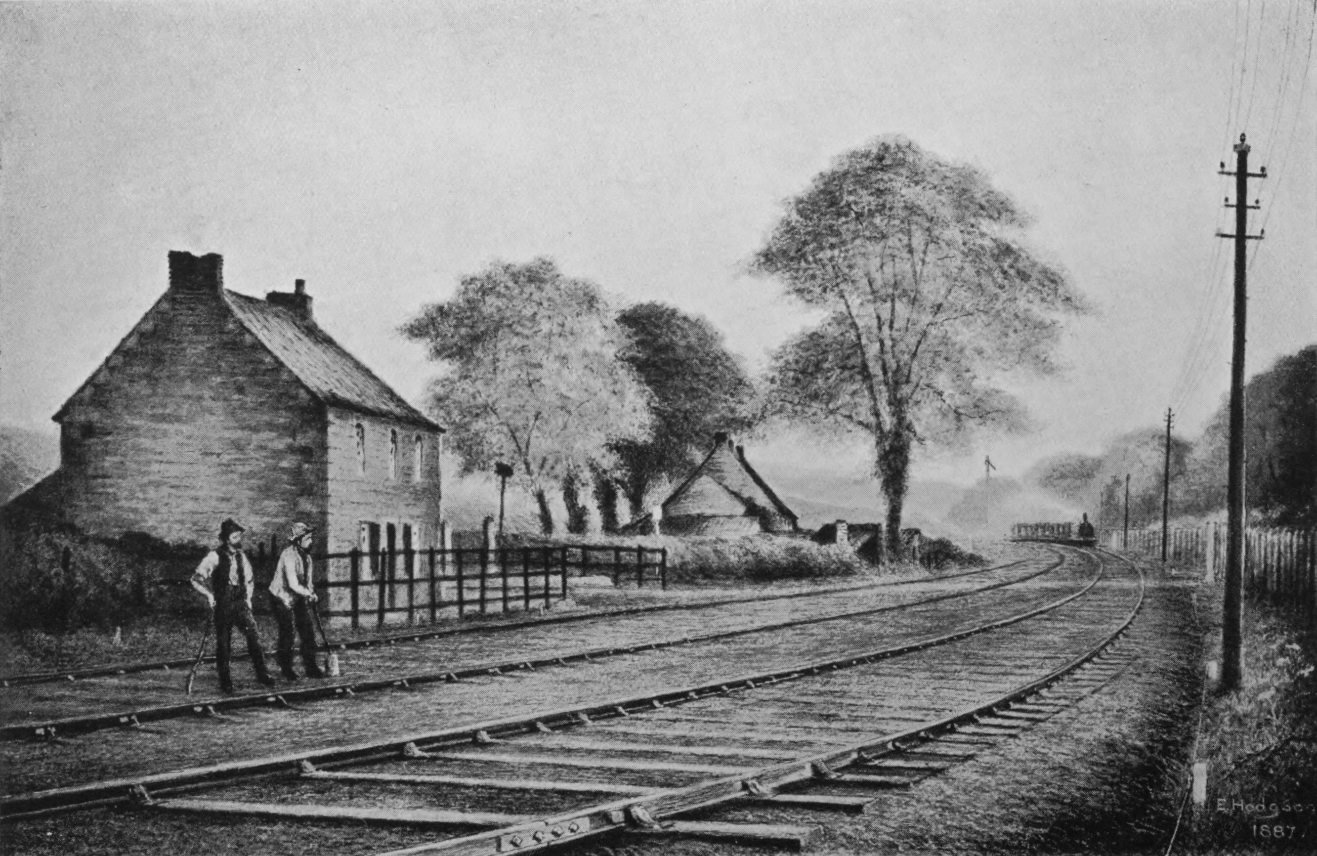 Image of the Scotswood, Newburn and Wylam Railway and the cottage in which George Stephenson was born (crop without border or text)